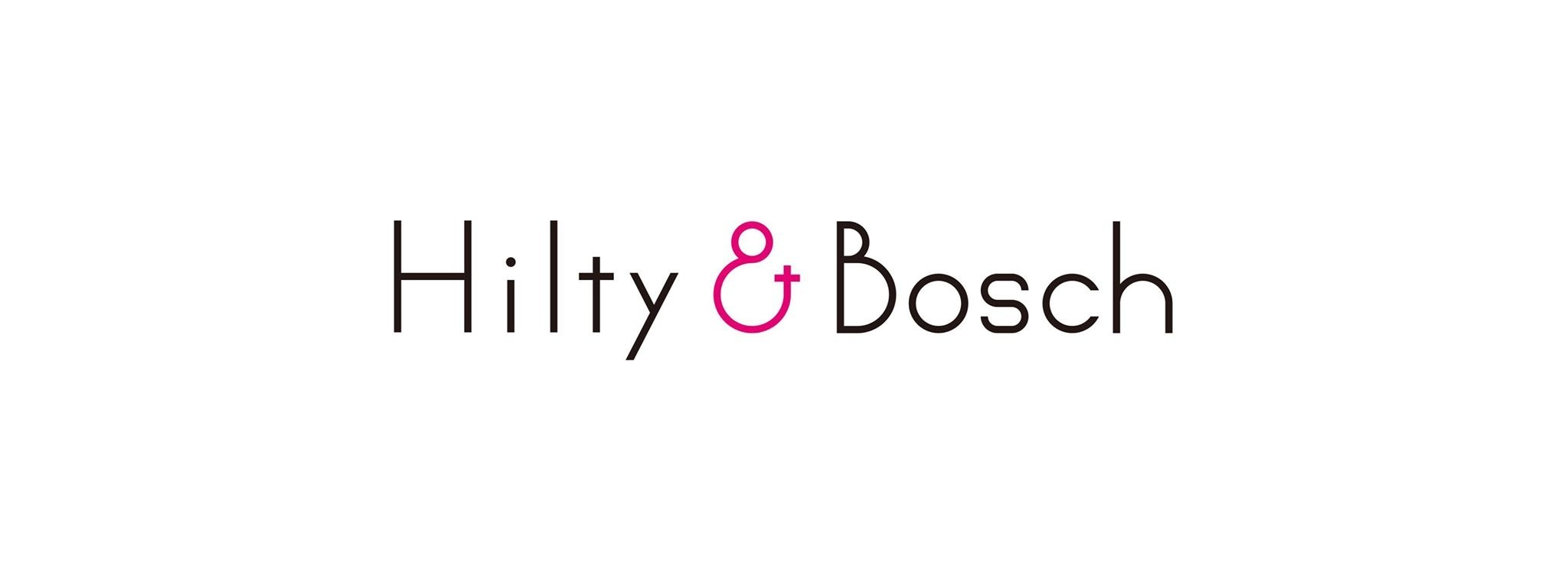 Hilty&Bosch公式ロゴ